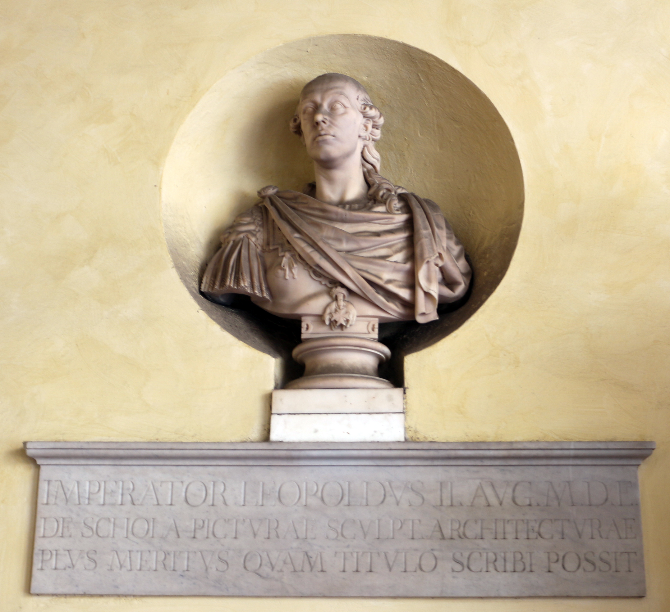 Accademia di Belle Arti (Florence)